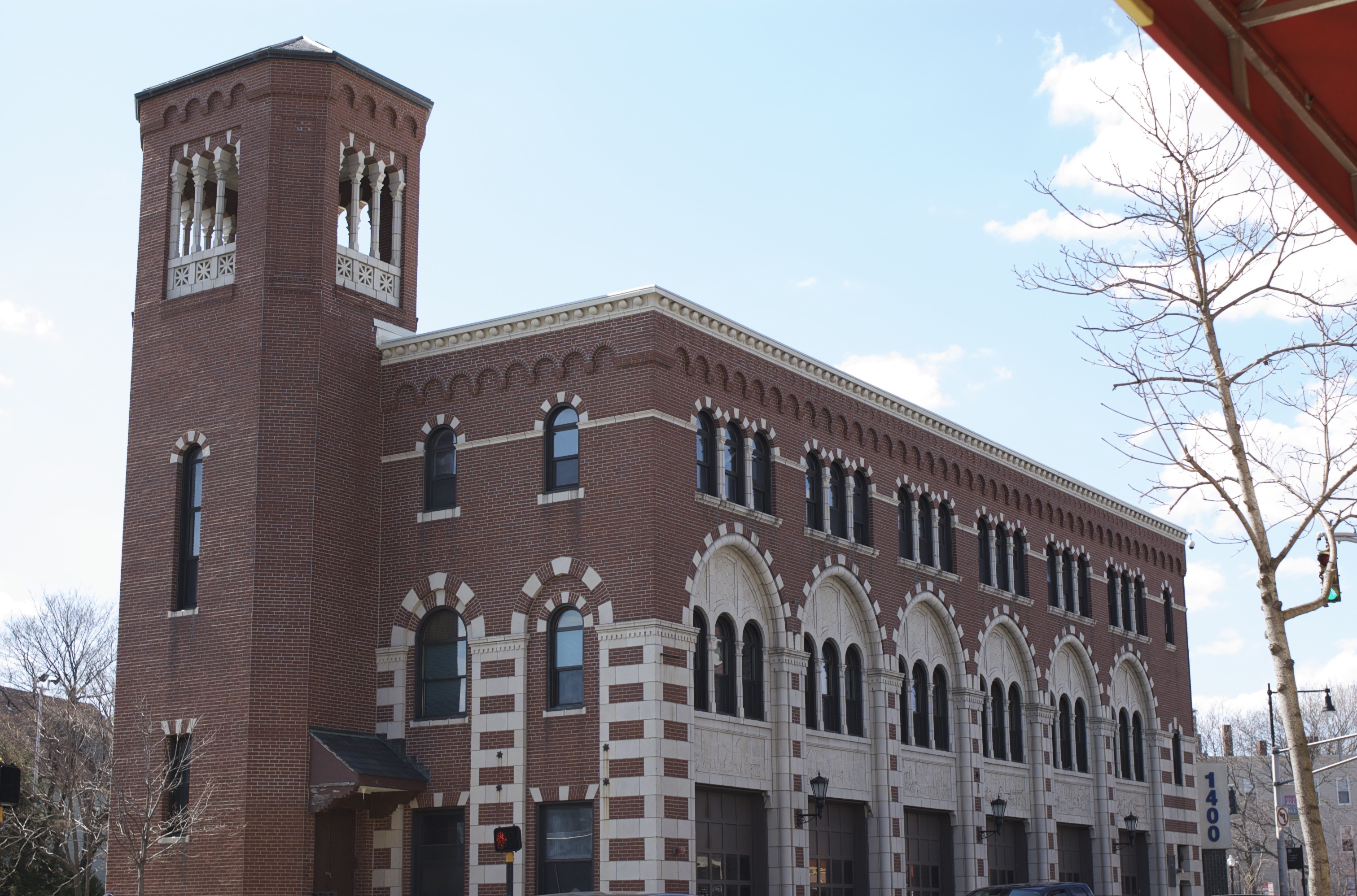 Firehouse 1384, in Inman Square, Cambridge, Massachusetts.